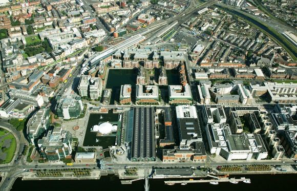 Original IFSC I site in Dublin that was started in 1987